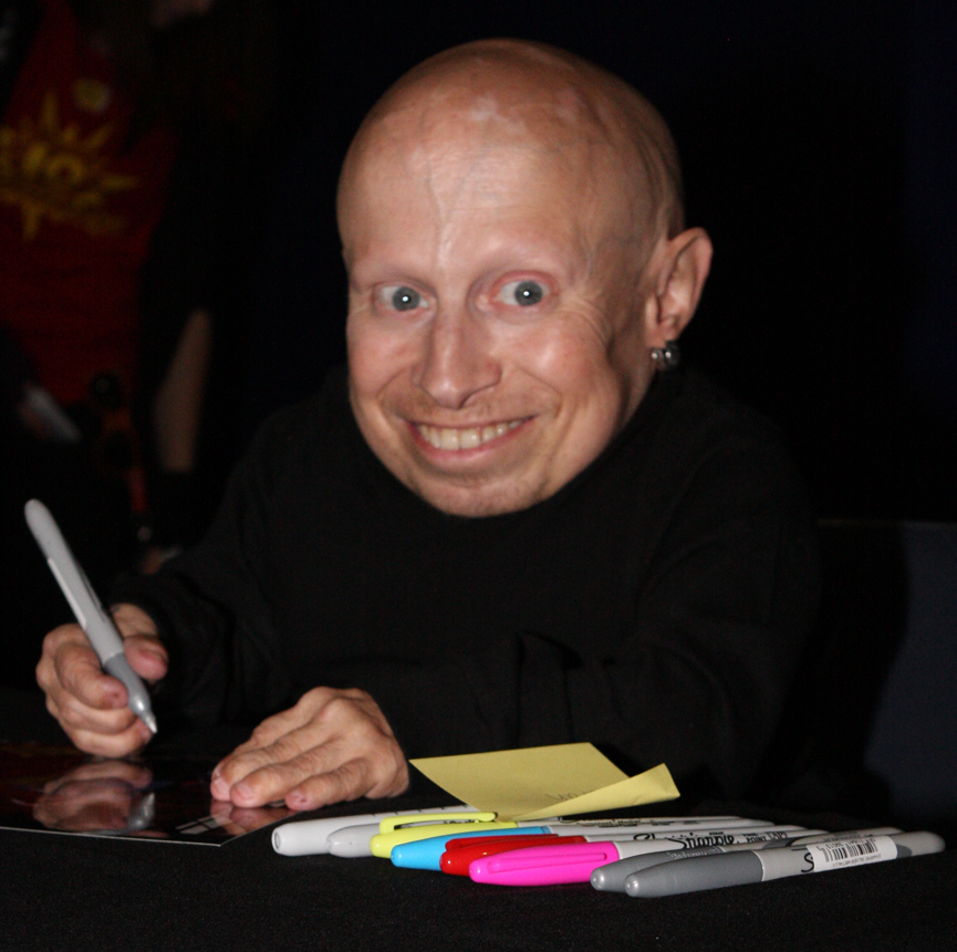 Verne Troyer at the Supernova Pop Culture Expo Hits Sydney, Australia 2012.